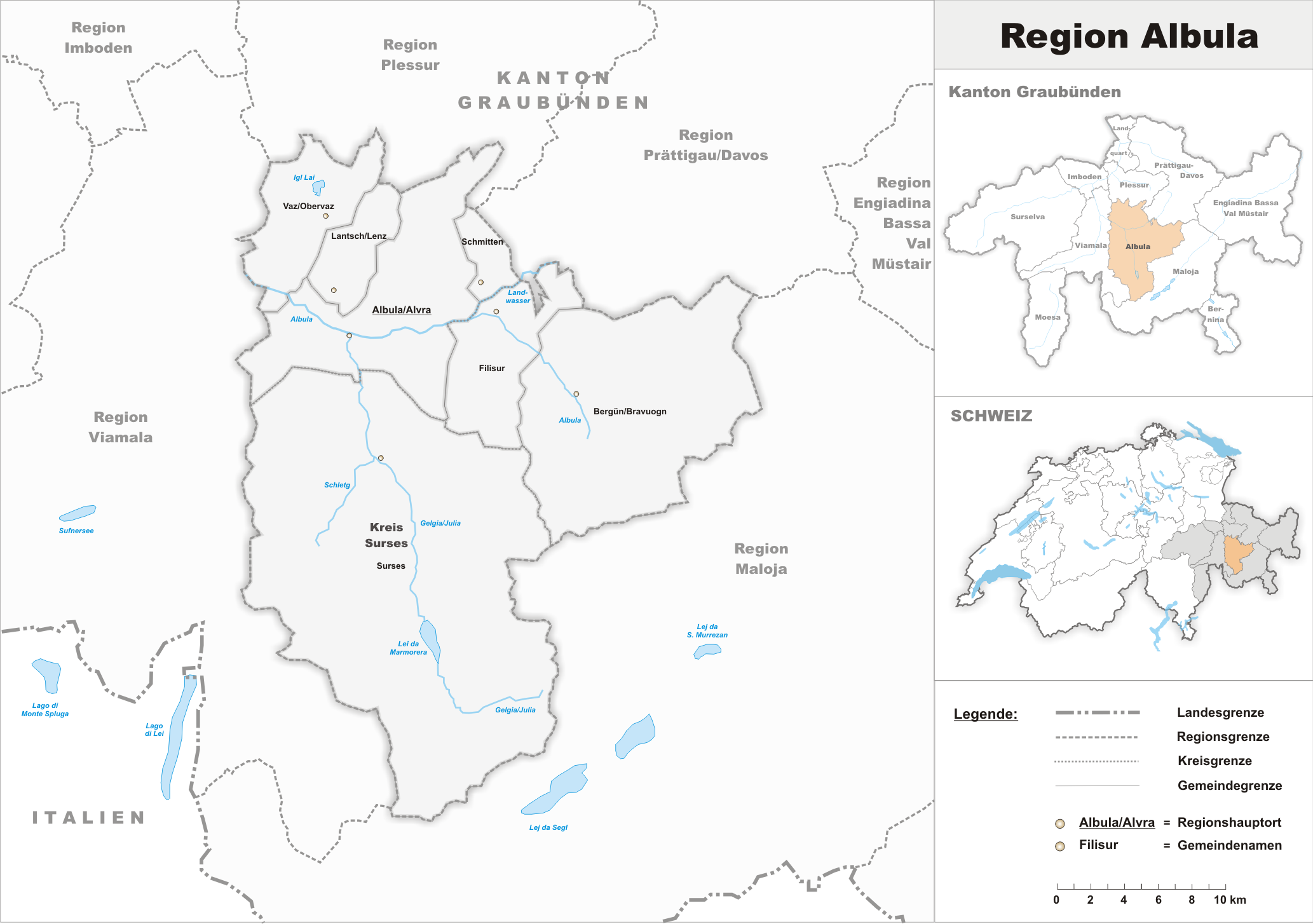 Municipalities in the district of Albula